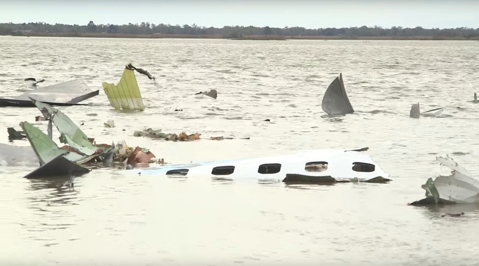 Atlas Air Flight 3591（B-767-375/N1217A） crash site